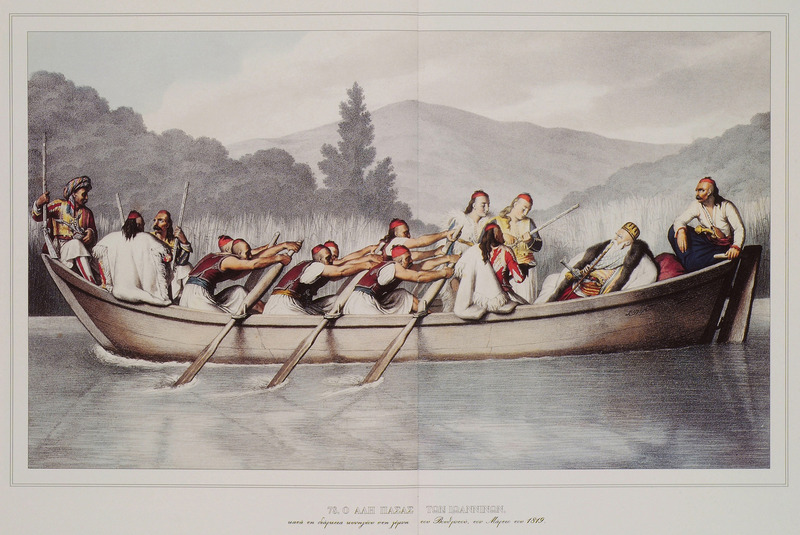 Ali Pasha of Ioannina, at a hunt at Butrint Lake in March 1819, by Louis Dupré